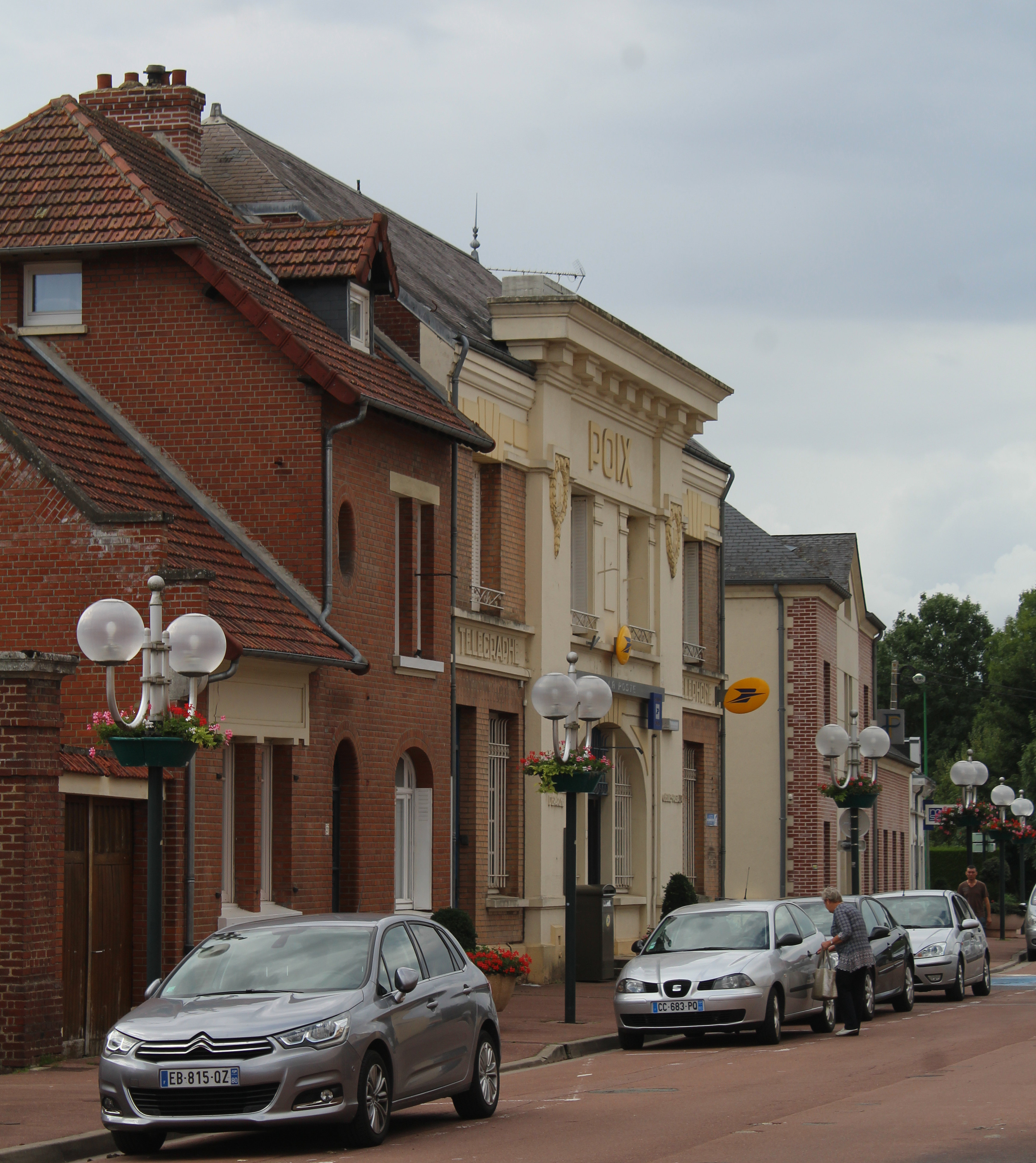 Poix-de-Picardie, the post office